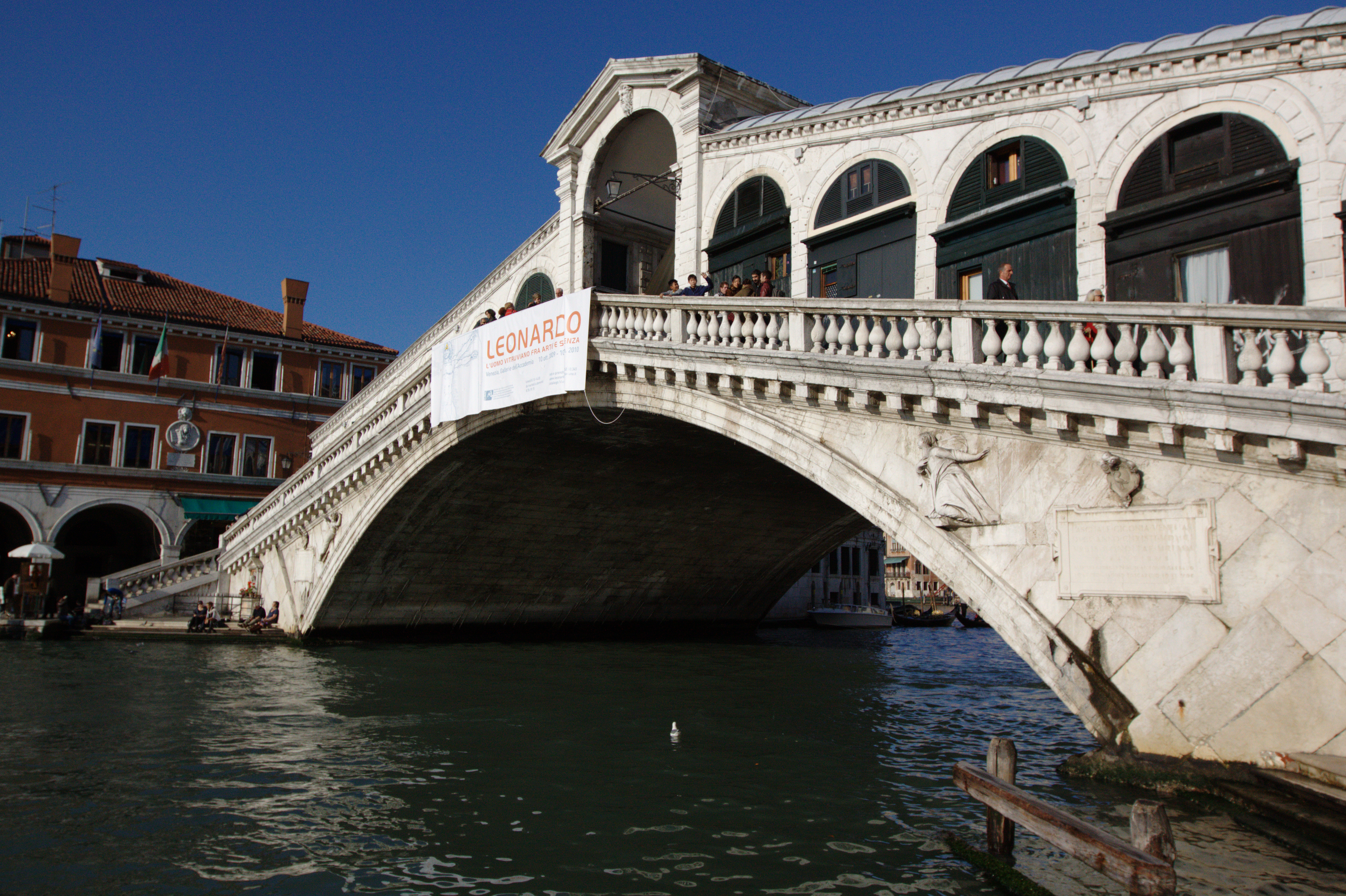 Rialto bridge